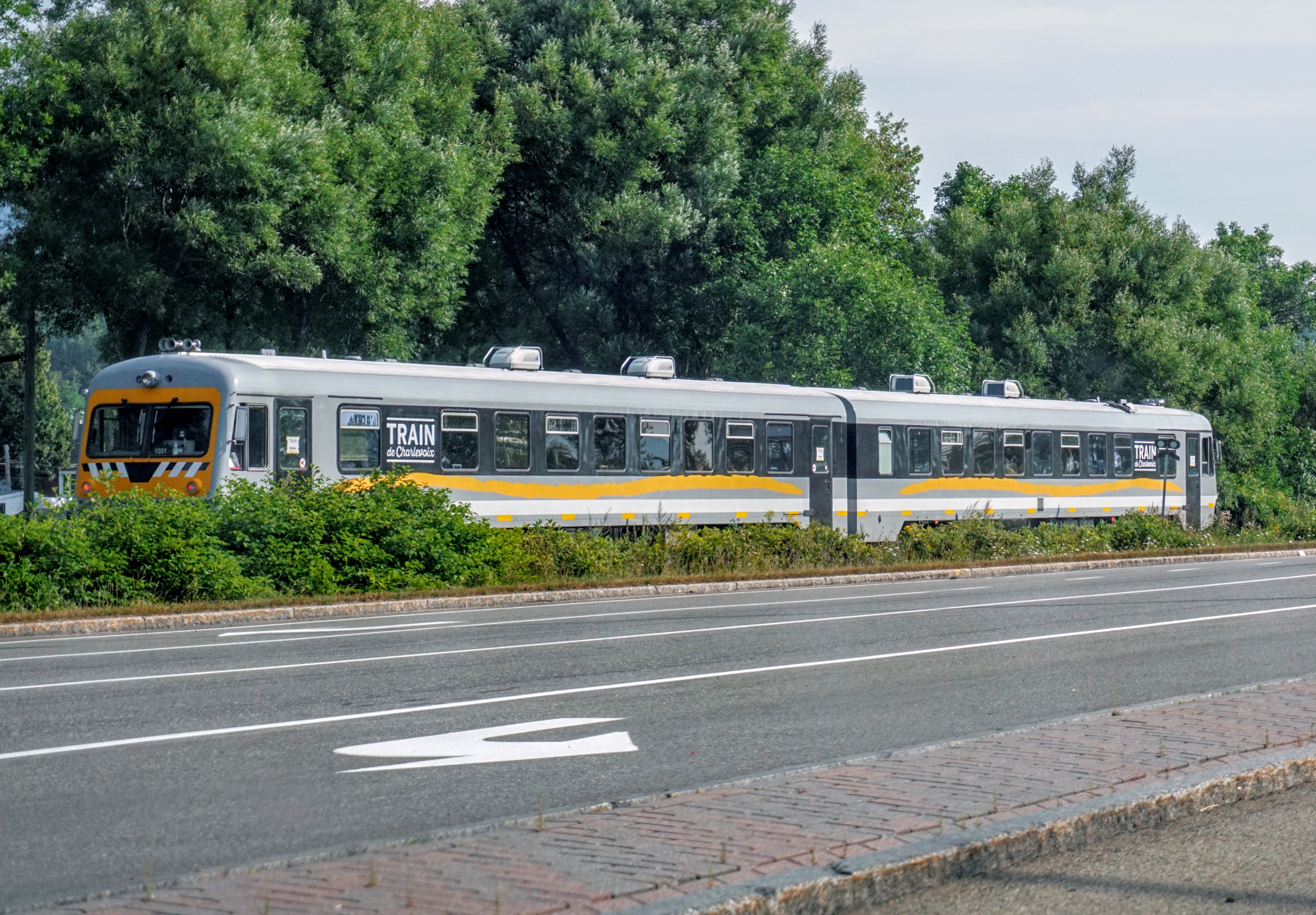 Train de Charlevoix from Quebec Autoroute 20